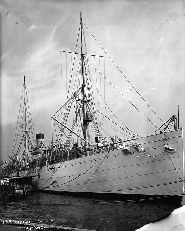 USS Supply (1873) in dock, probably taken just after her 1902 recommission at the New York Navy Yard Removed caption read: Photo # NH 43663 USS Supply in August 1902